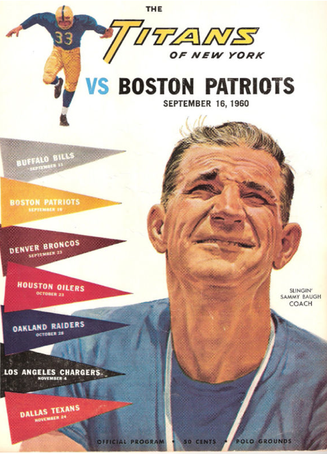 Titans/Pats program, 1960. While the image is taken off an ebay lot, a physical copy of the program was examined at the Pro Football Hall of Fame archives, Canton OH.